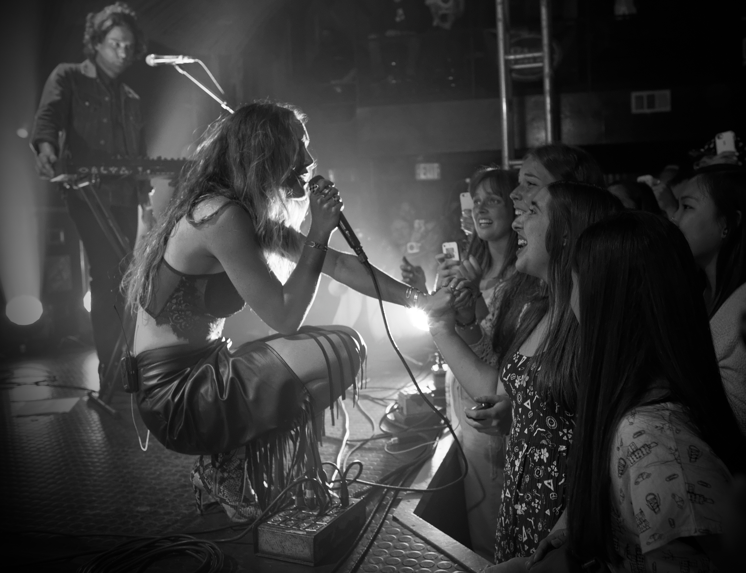 Zella Day performing live at The Troubadour in West Hollywood (Los Angeles) California on Wednesday June 3rd, 2015.